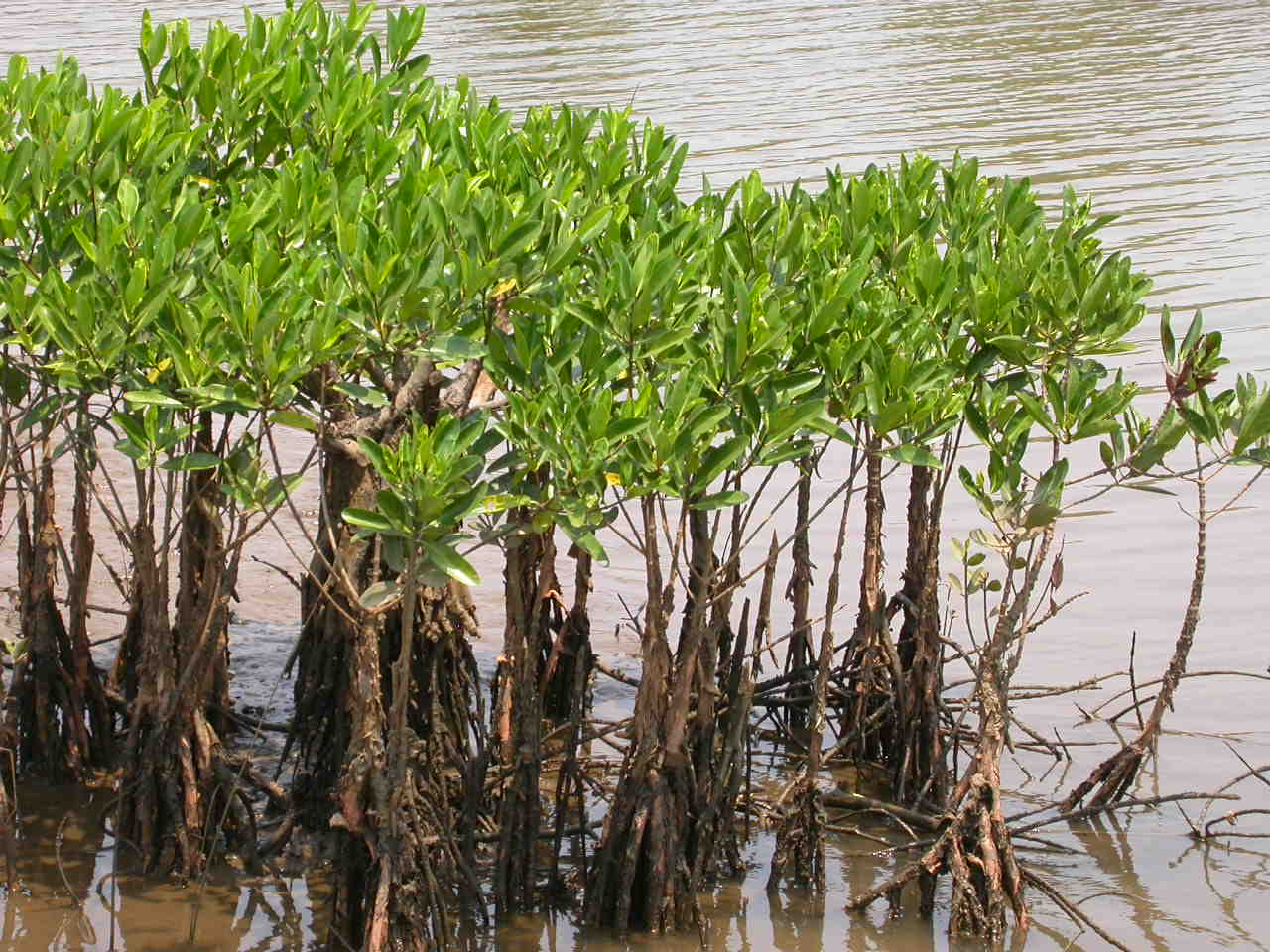 A cluster of mangroves on the banks of Vellikeel river in Kannur District of Kerala, India